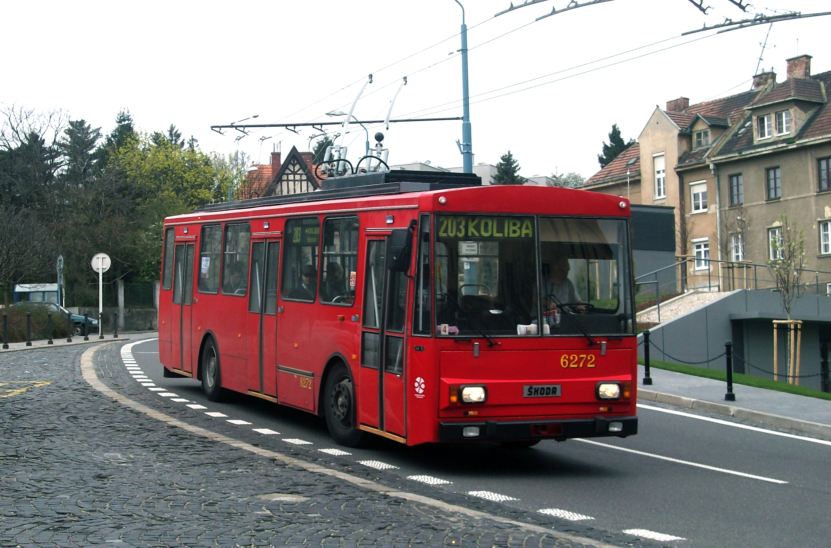 Trolleybus Skoda, Bratislava